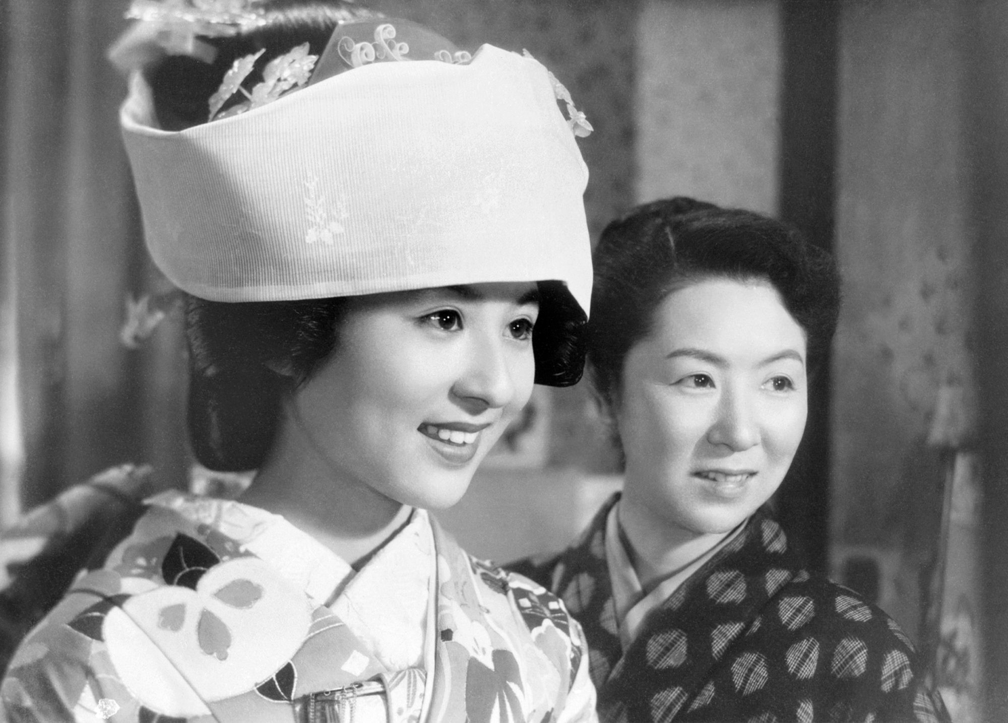 Mother (おかあさん Okaasan) is a 1952 black-and-white Japanese film directed by Mikio Naruse, starring Kinuyo Tanaka in the title role. (Left: Kyōko Kagawa)